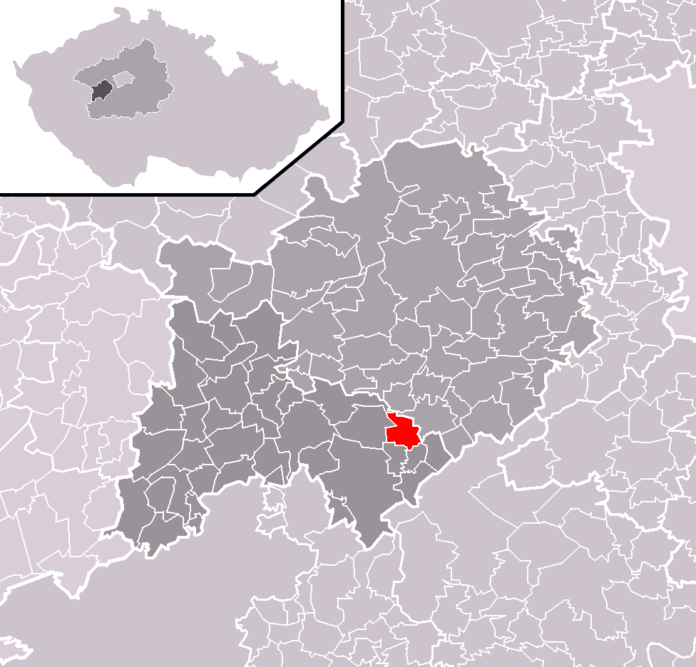 Location of Lážovice municipality within Beroun District and administrative area of Hořovice as a Municipality with Extended Competence.